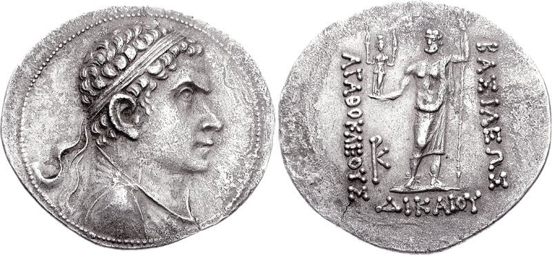 Agathocles the Just. Circa 185-180 BC. AR Tetradrachm (16.34 g, 12h). Diademed and draped bust right / Zeus standing facing, holding scepter and Hekate; monogram to inner left.